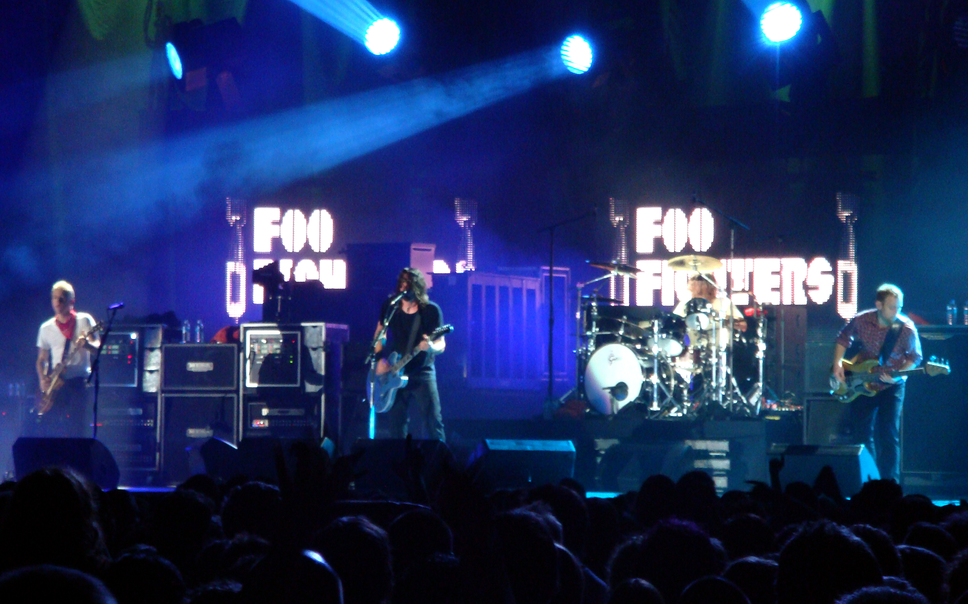 Posted on Flickr by user mojo-jo-jo under CC Attribution 2.0.